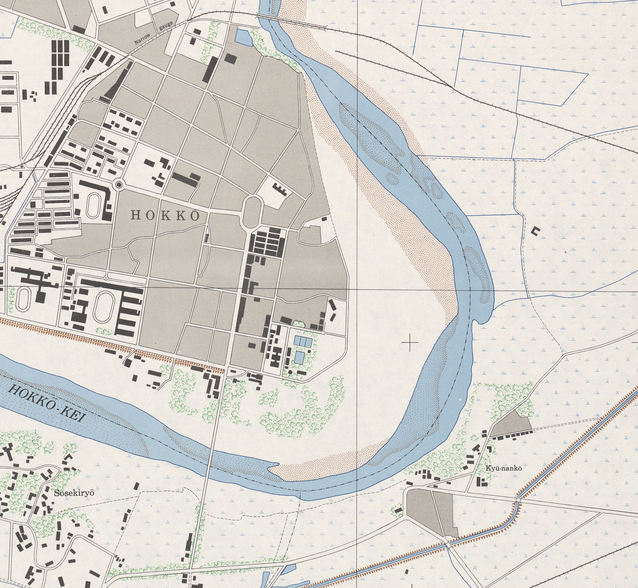 Centrl Hokko, Tainan, Formosa (Taiwan) City Plans